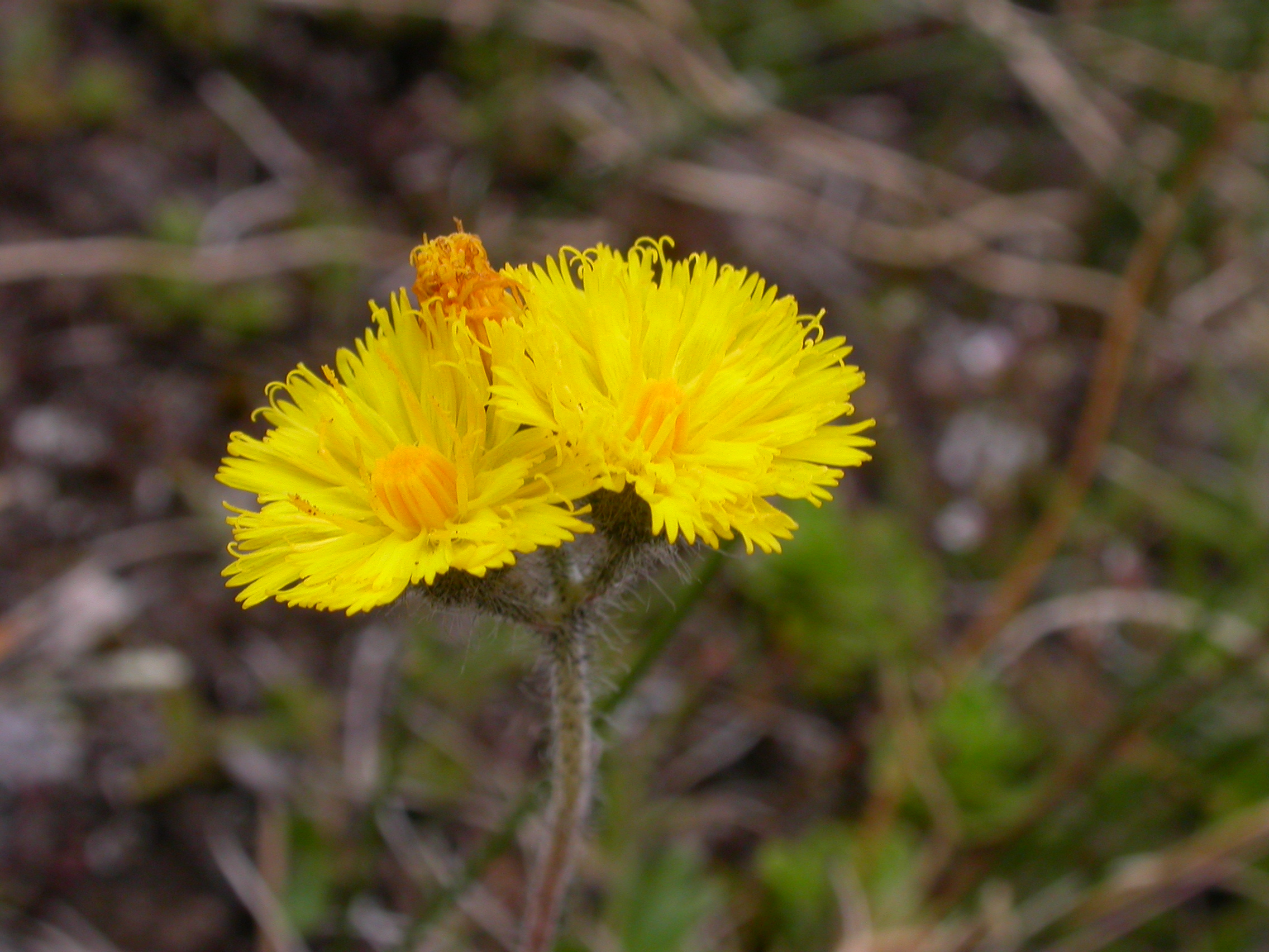 NOT Senecio angustifolius (a South African species) Zermatt, Riffelberg (Kanton Wallis, Switzerland), 2500 m Author: Barbara Studer – own photograph Date: 2.08.06